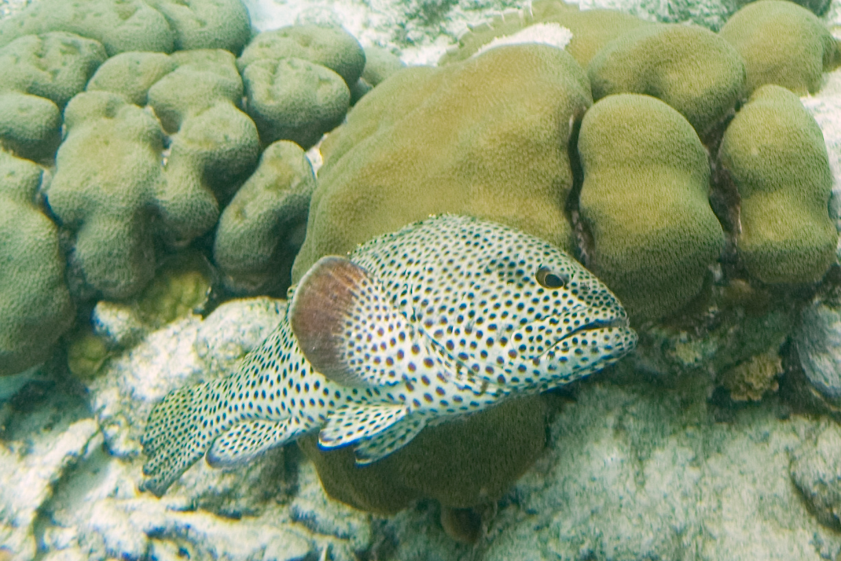 rock hind Epinephelus adscensionis